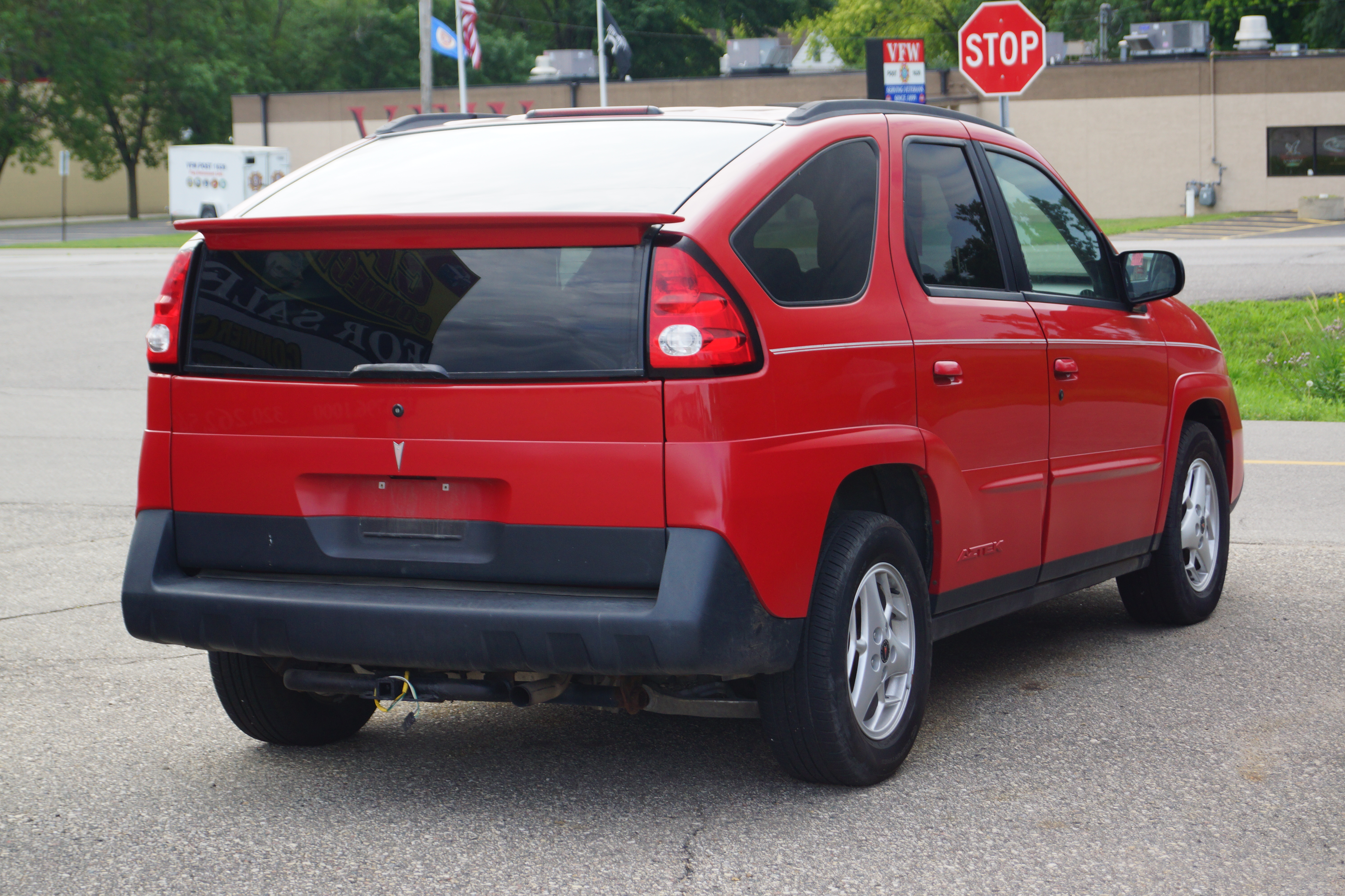 Click here for previous Hastings Cruise Night pictures.. Click here for more car pictures at my Flickr site. Or here for my Car Crazy Tumblr site. Or on Twitter @DVS1mn.